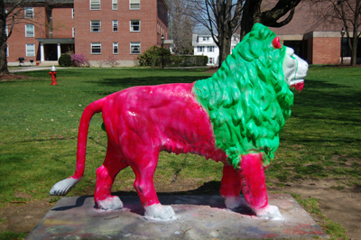 It's a tradition to paint the Lion at The Williston Northampton School.